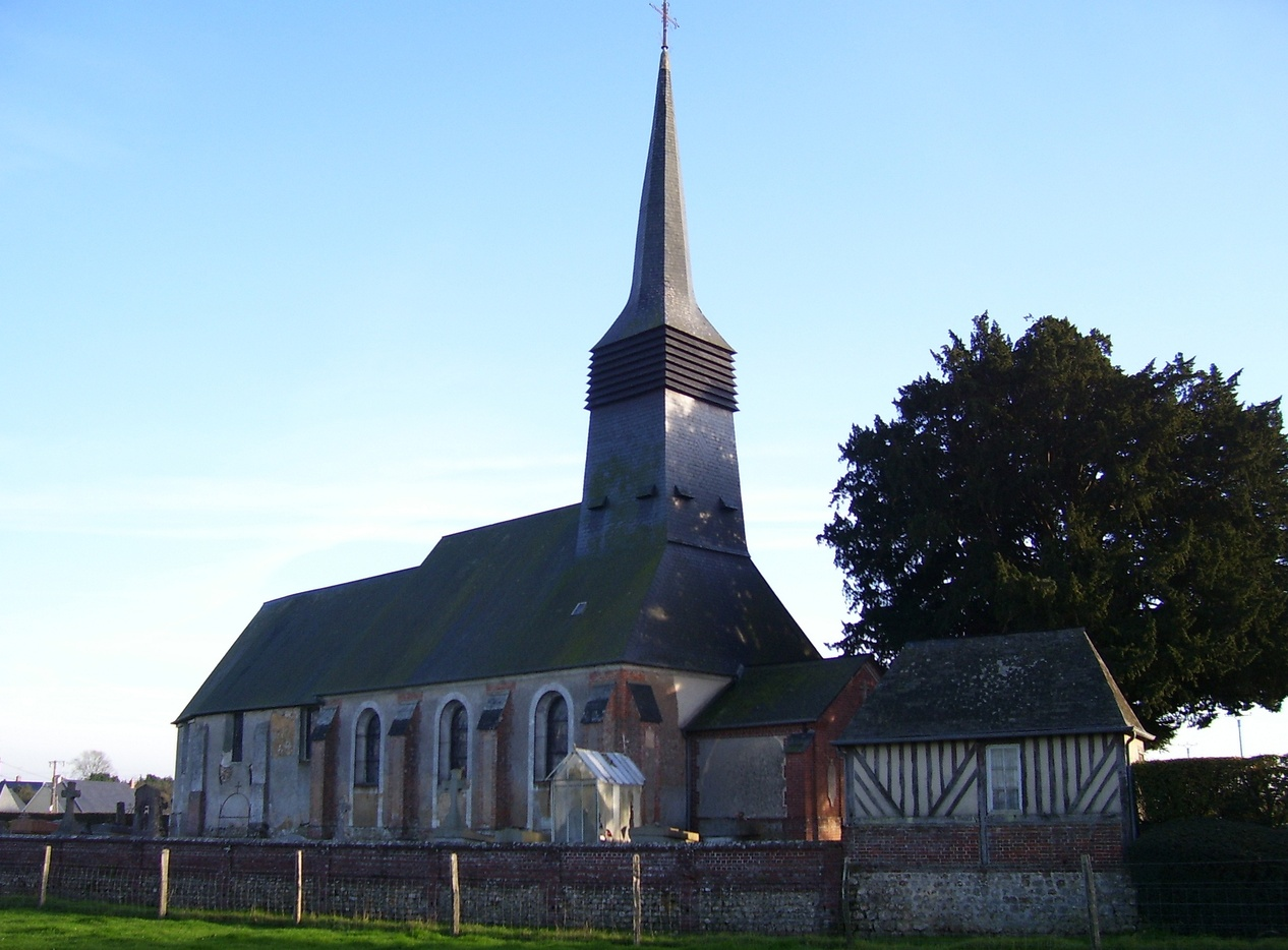 The church Saint-Martin in Bazoques (Eure, France), northern side.